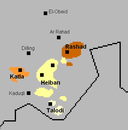 Kordofanian languages (in detail), kadu laganguaes not included